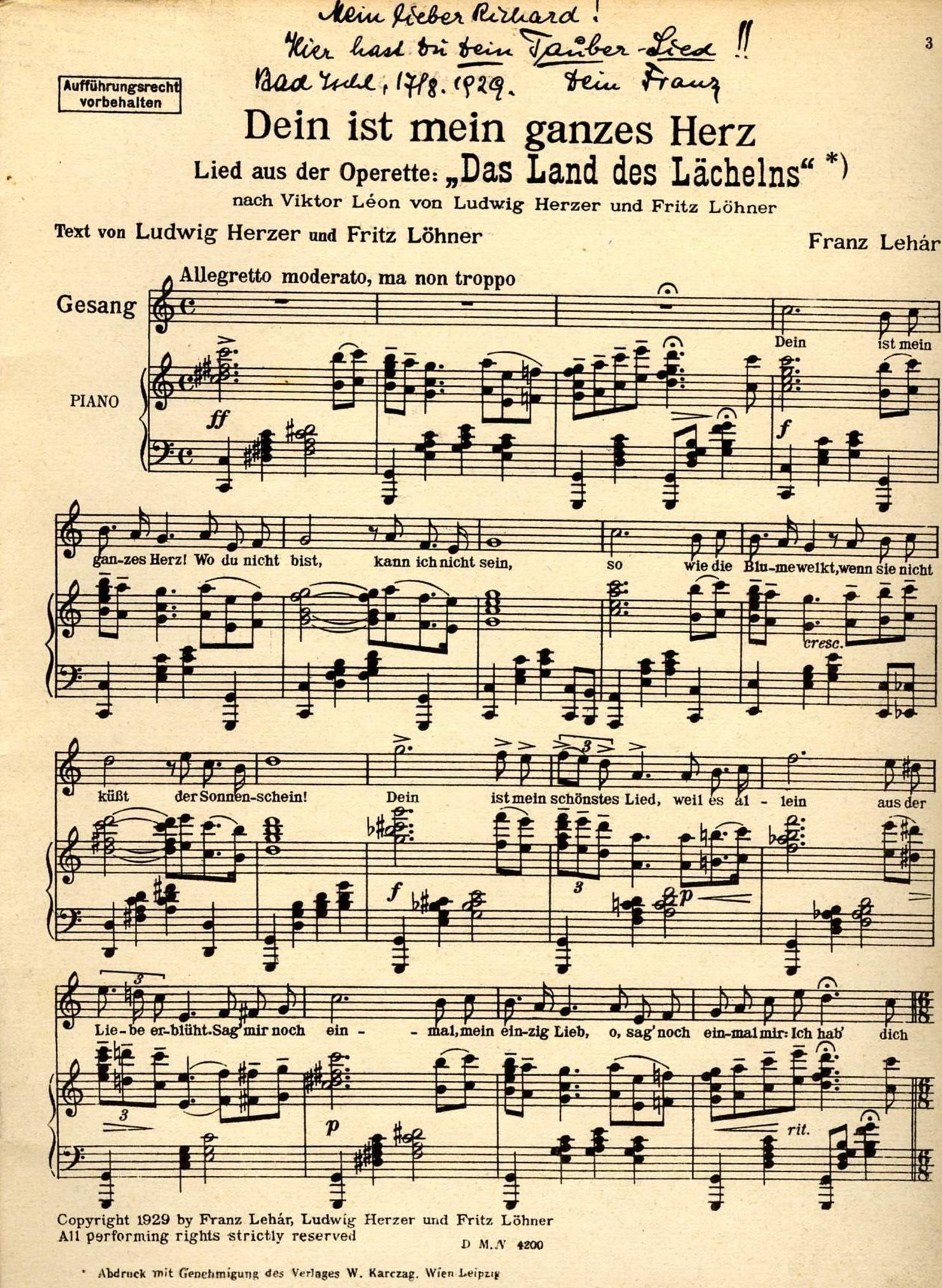 "Dein ist mein ganzes Herz" aria score with the author's inscription to Richard Tauber